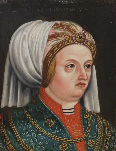 Katharina of Savoy